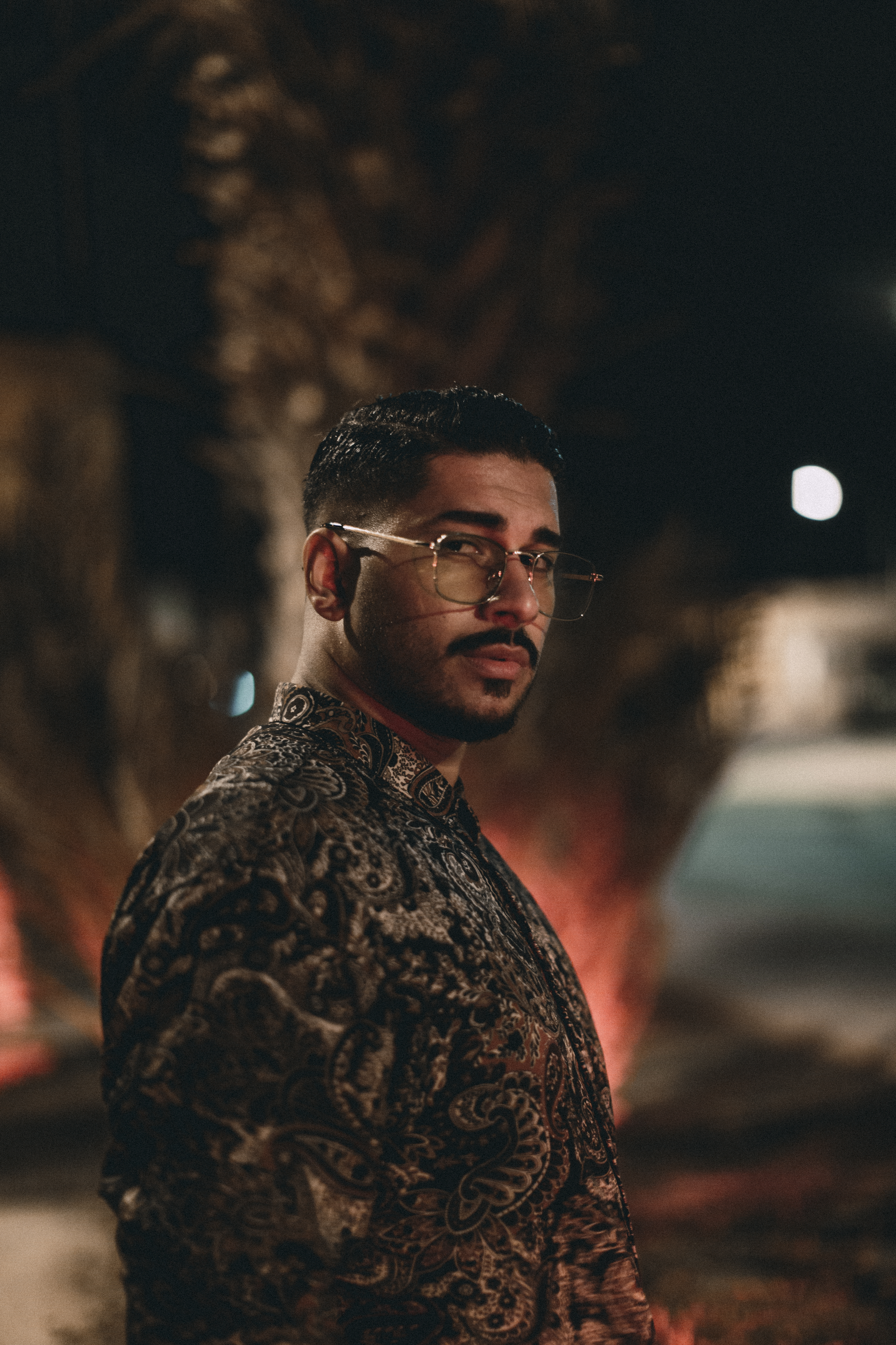 Pressefoto des Rappers Calo